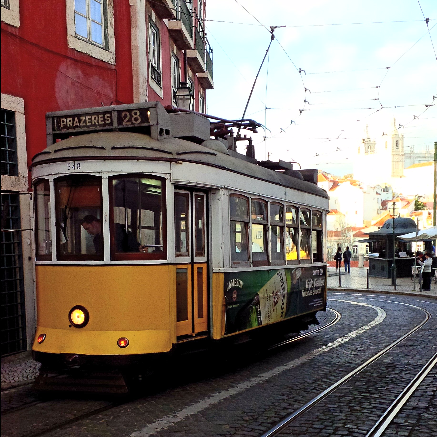 Tram 28 in Alfama, Lisbon (2014).